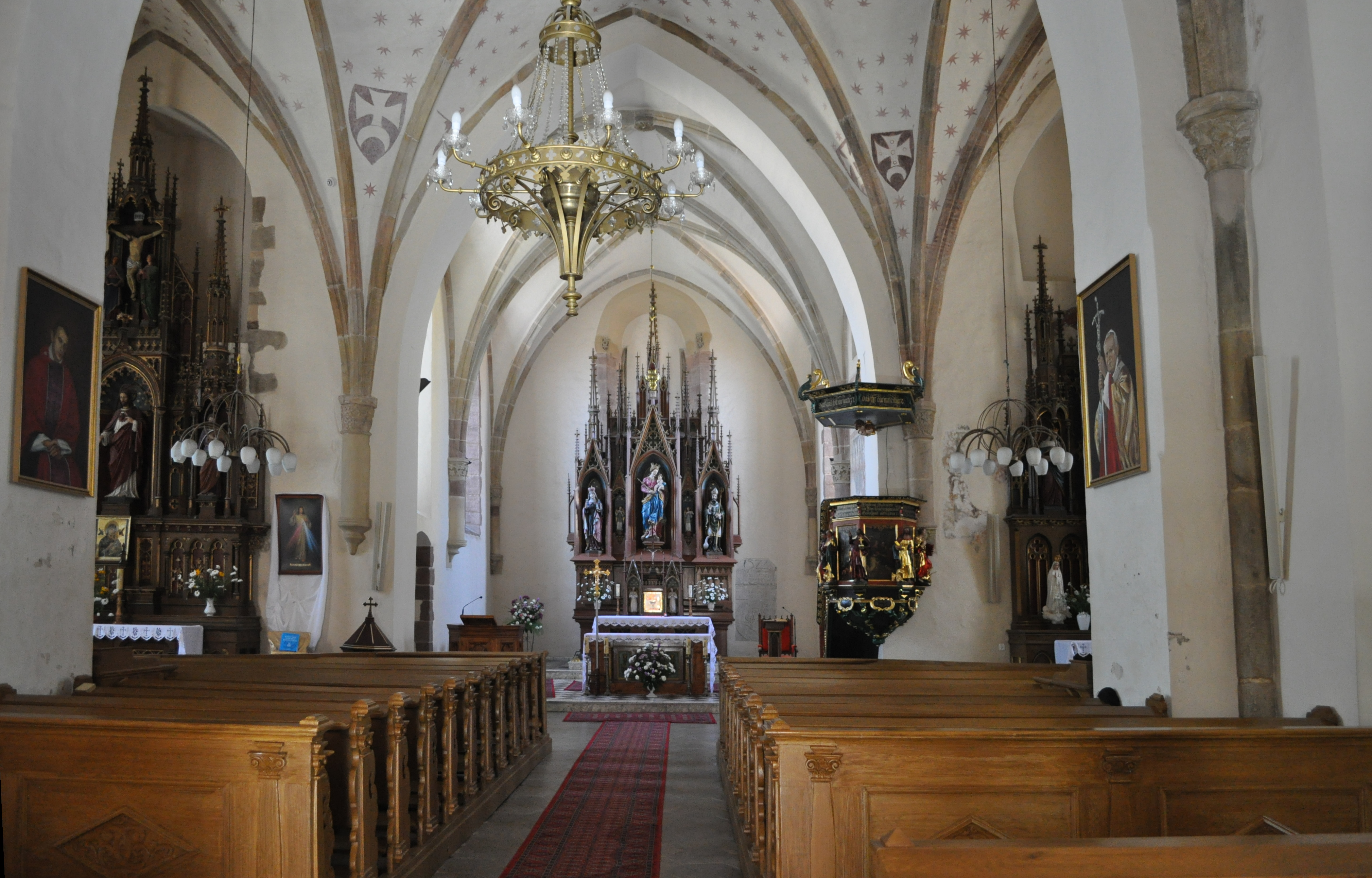 Church in Bolków